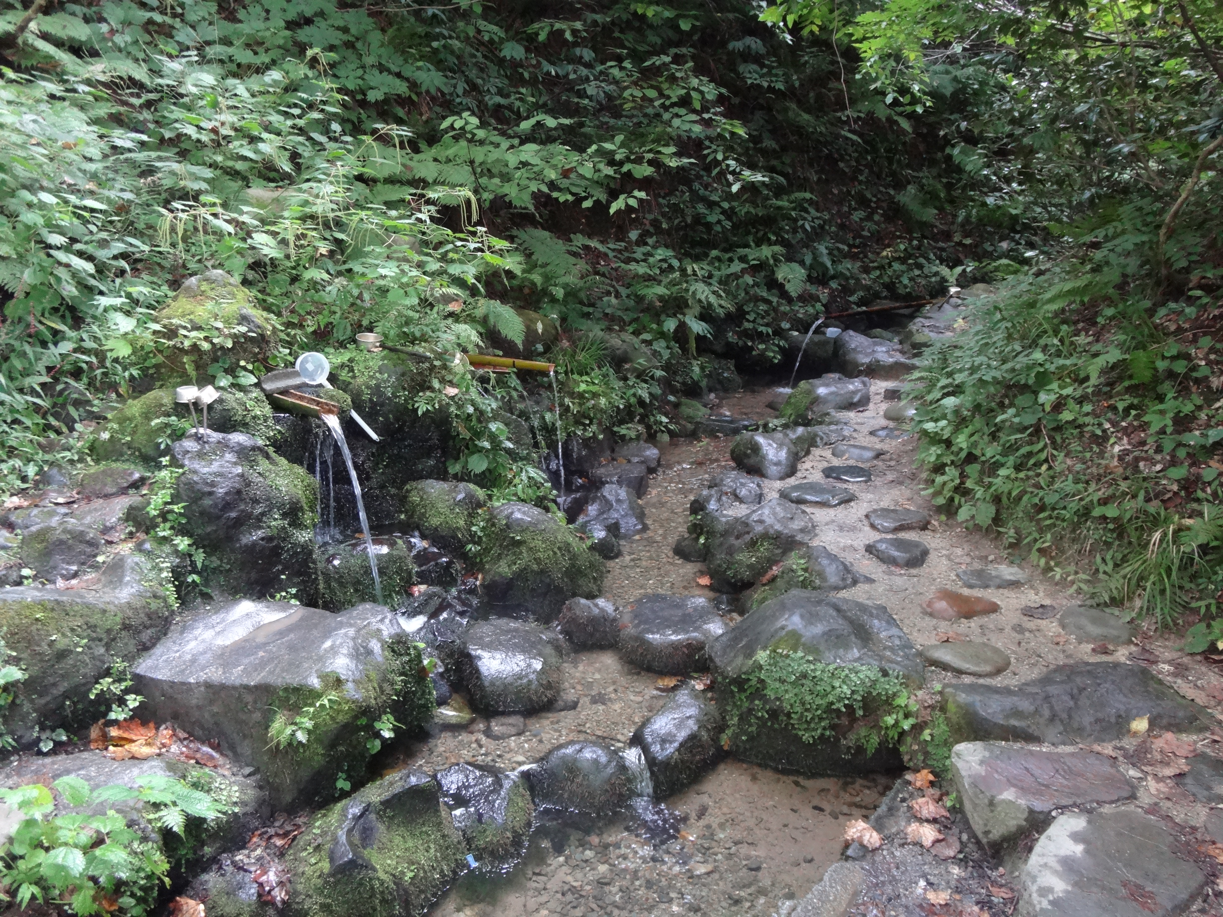 Spring water at Todo no Mori Forest, Nagaoka, Niigata Prefecture, Japan